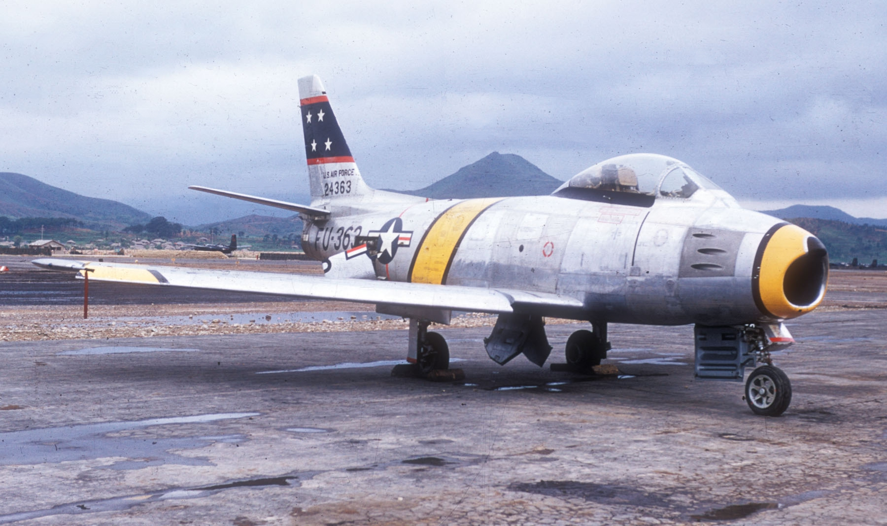 A U.S. Air Force North American F-86F-30-NA Sabre (s/n 52-4363) from the 12th Fighter-Bomber Squadron, 18th Fighter-Bomber Wing, at Taegu Air Base (K-2), Korea, in 1952.